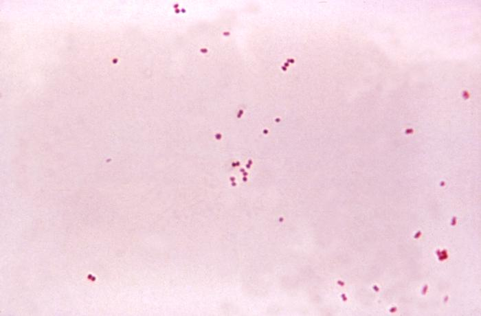 This micrograph depicts the presence of aerobic Gram-negative Neisseria meningitidis diplococcal bacteria; Mag. 1150X. Meningococcal disease is an infection caused by a bacterium called N. meningitidis or the meningococcus. The meningococcus lives in the throat of 5-10% of healthy people. Rarely, it can cause serious illness such as meningitis or blood infection.